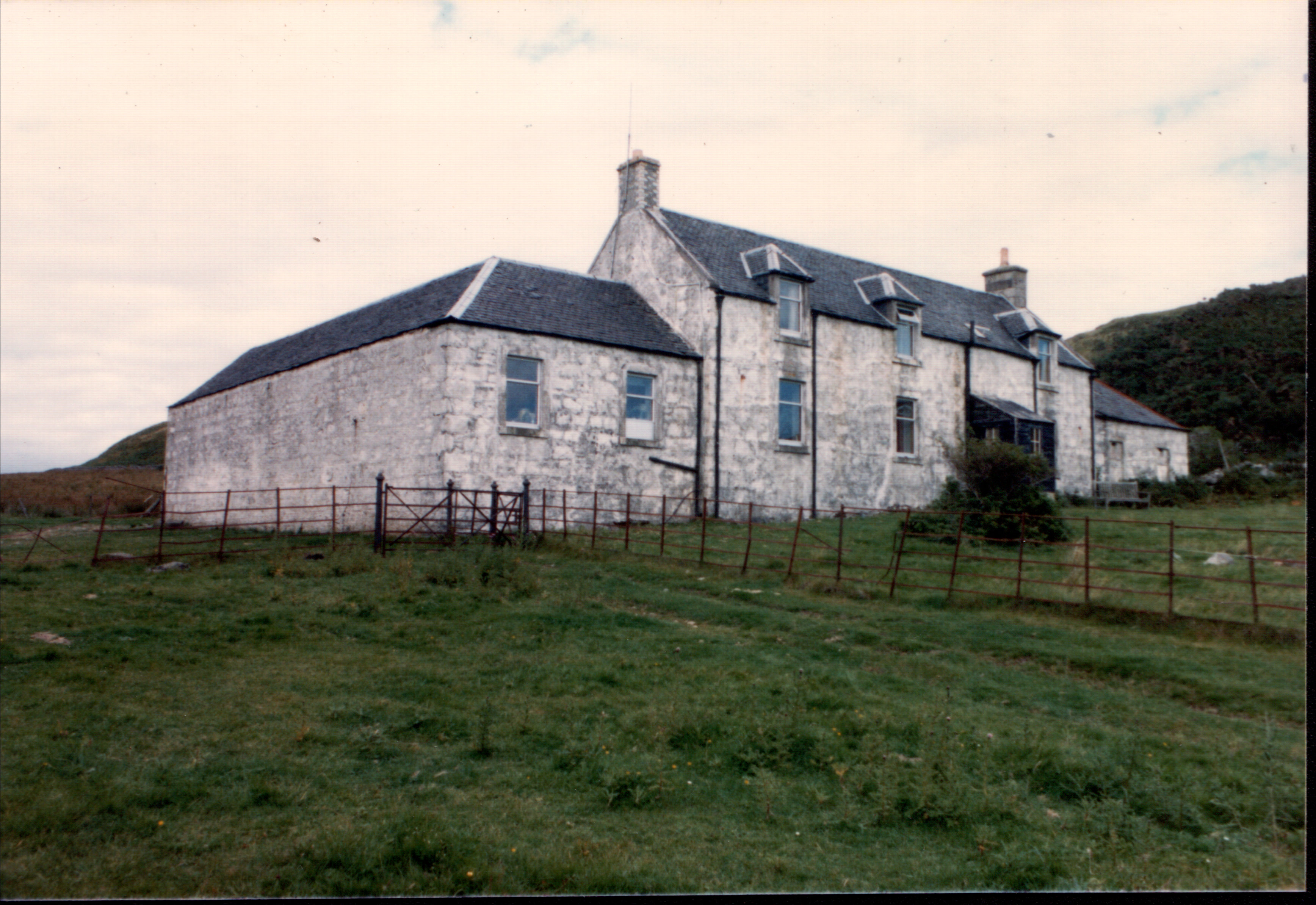 House on the island of Jura occupied by George Orwell when writing novel 1984